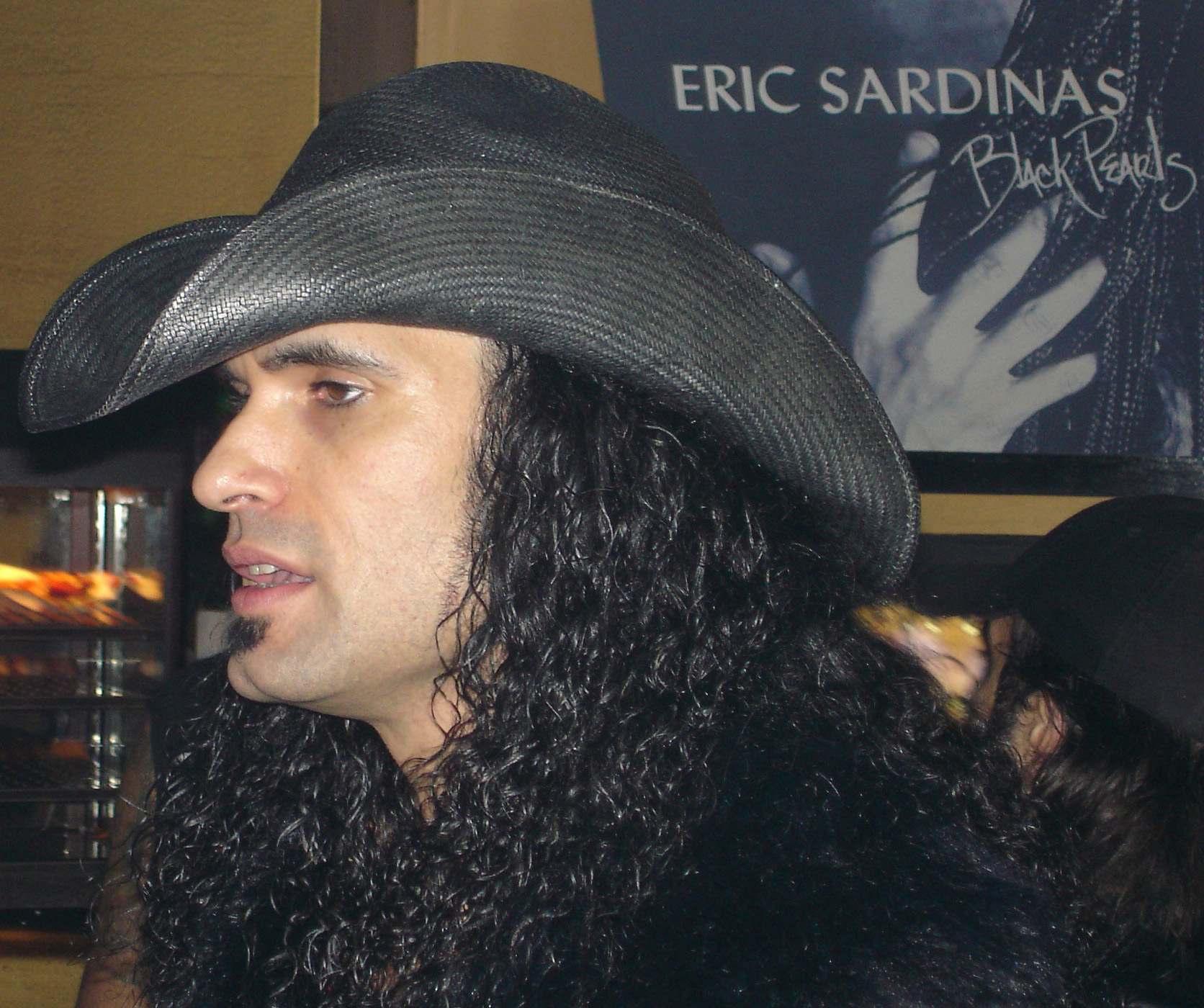 Eric Sardinas is an American blues-rock guitarist born in Fort Lauderdale, Florida in 1970. He is noted for his use of the electric resonator guitar and his powerful live performances.